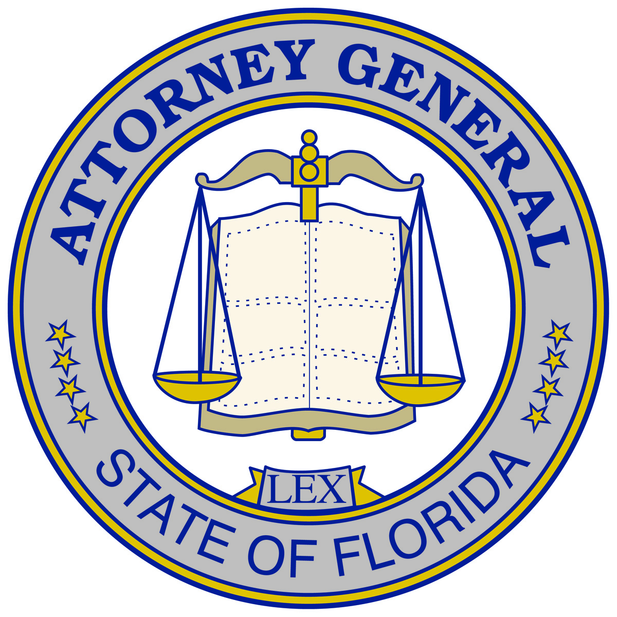 Seal of the Attorney General of Florida.